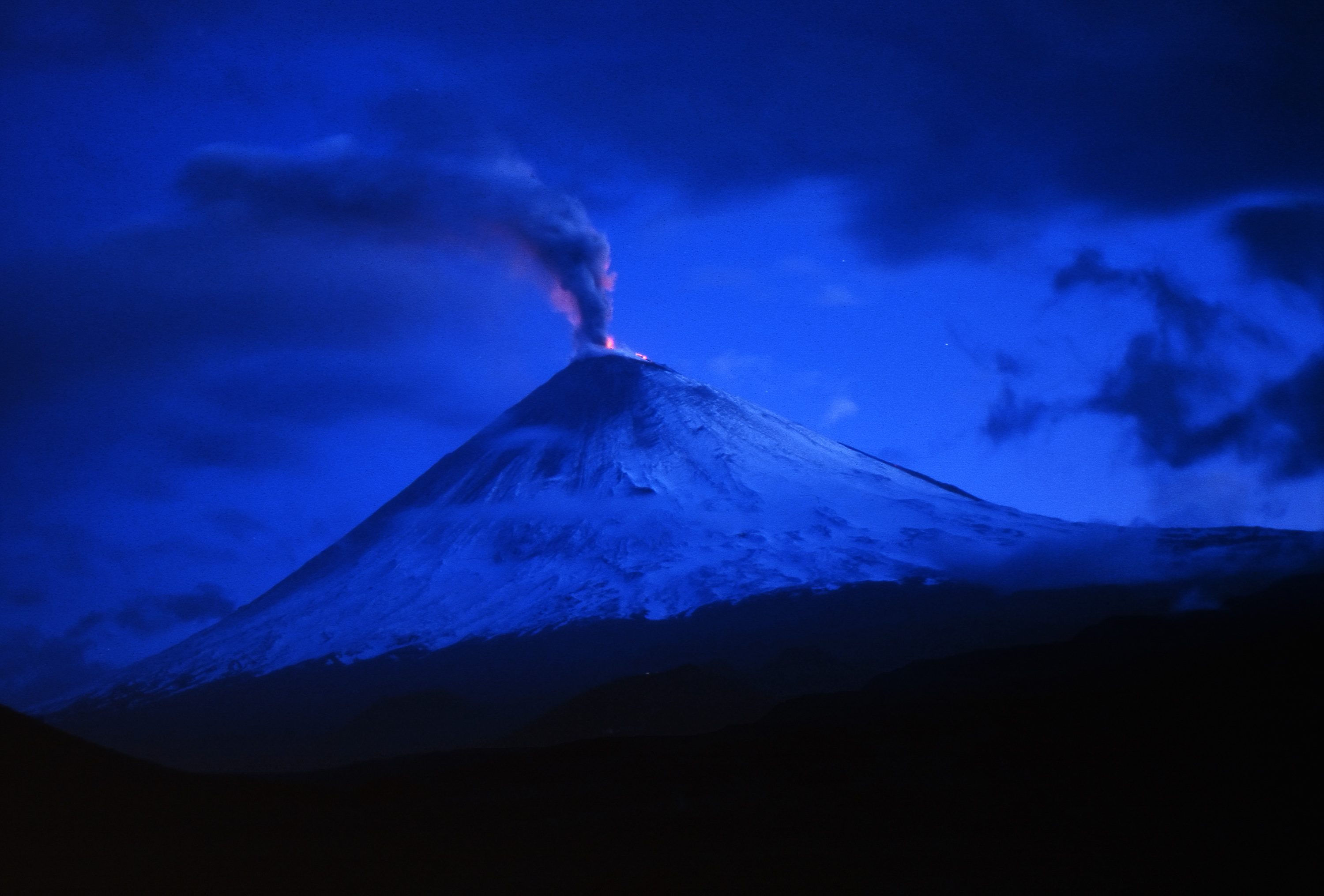 Eruption of Klyuchevskoi volcano in Kamchatka, Russia in the summer of 1993.